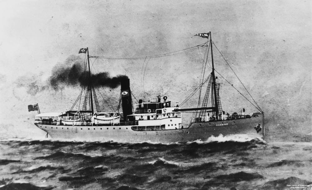 683 GRT passenger and cargo steamship Dorrigo. Smith's Dock of Middlesbrough built her in 1913 as Saint François for Cie. Navale de l'Océanie of Bordeaux. Langley Brothers of Sydney, NSW bought her in 1922 and renamed her Dorrigo. North Coast Steam Navigation Co acquired the ship when it took over Langley Bros in 1925. John Burke of Brisbane bought Dorrigo from North Coast Steam Navigation later in 1925. On 2 April 1926 en route from Sydney to Thursday Island she sank off Double Island Point, Queensland.